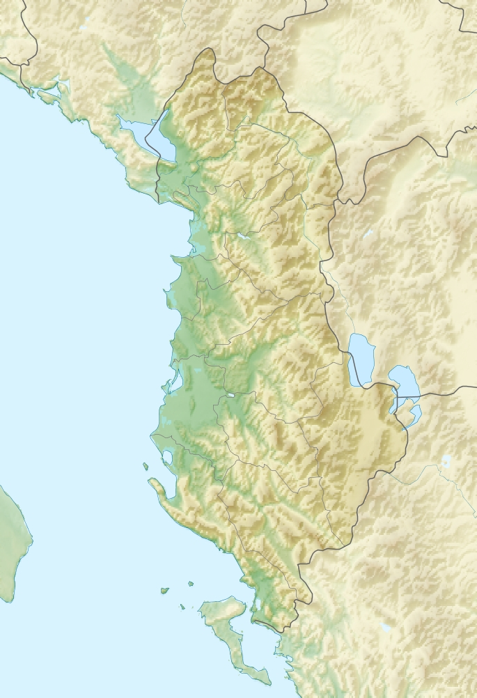 Location map of Albania. Equirectangular projection. Strechted by 130.0%. Geographic limits of the map: * N: 42.9° N * S: 39.3° N * W: 18.3° E * E: 21.5° E Made with Natural Earth. Free vector and raster map data @ .